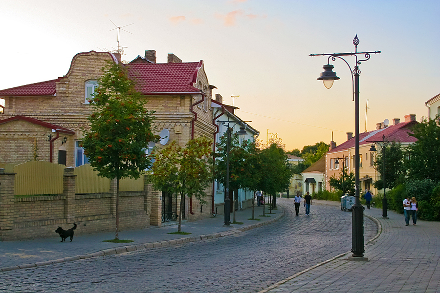 Danyla Bratkovskogo Street in Lutsk